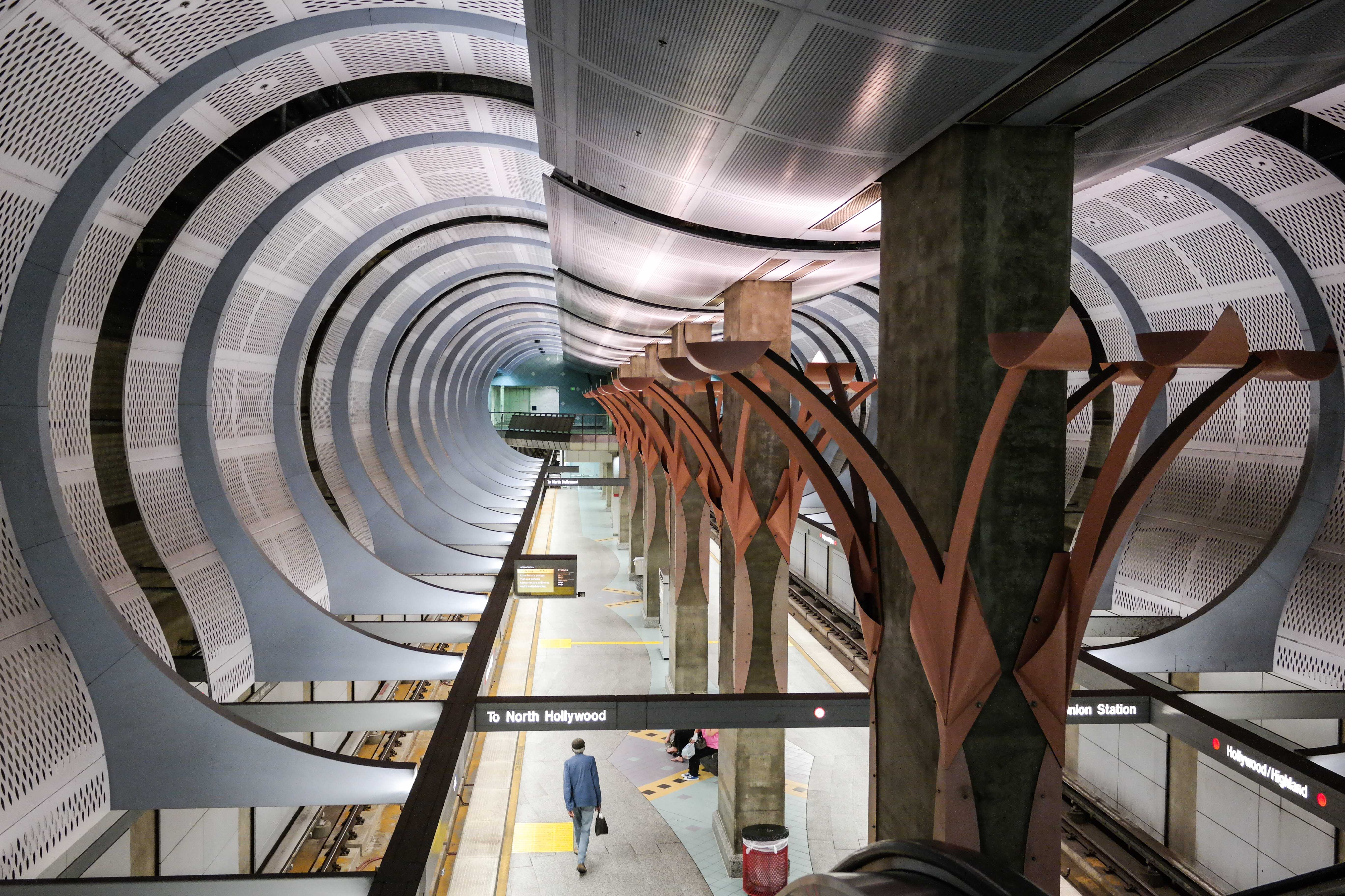 The Hollywood Highland Metro Station